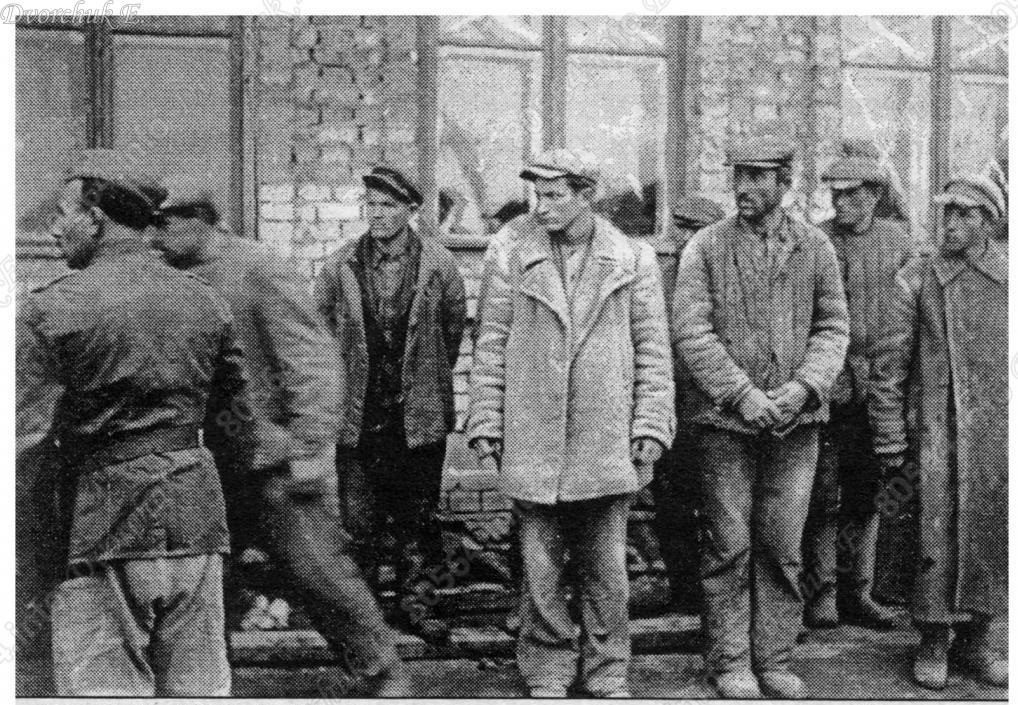 Митинг оккупантов. 1942 г. Фото, было найденно у пленного немецкого офицера. (Из фондов Криворожского историко-краеведческого музея).